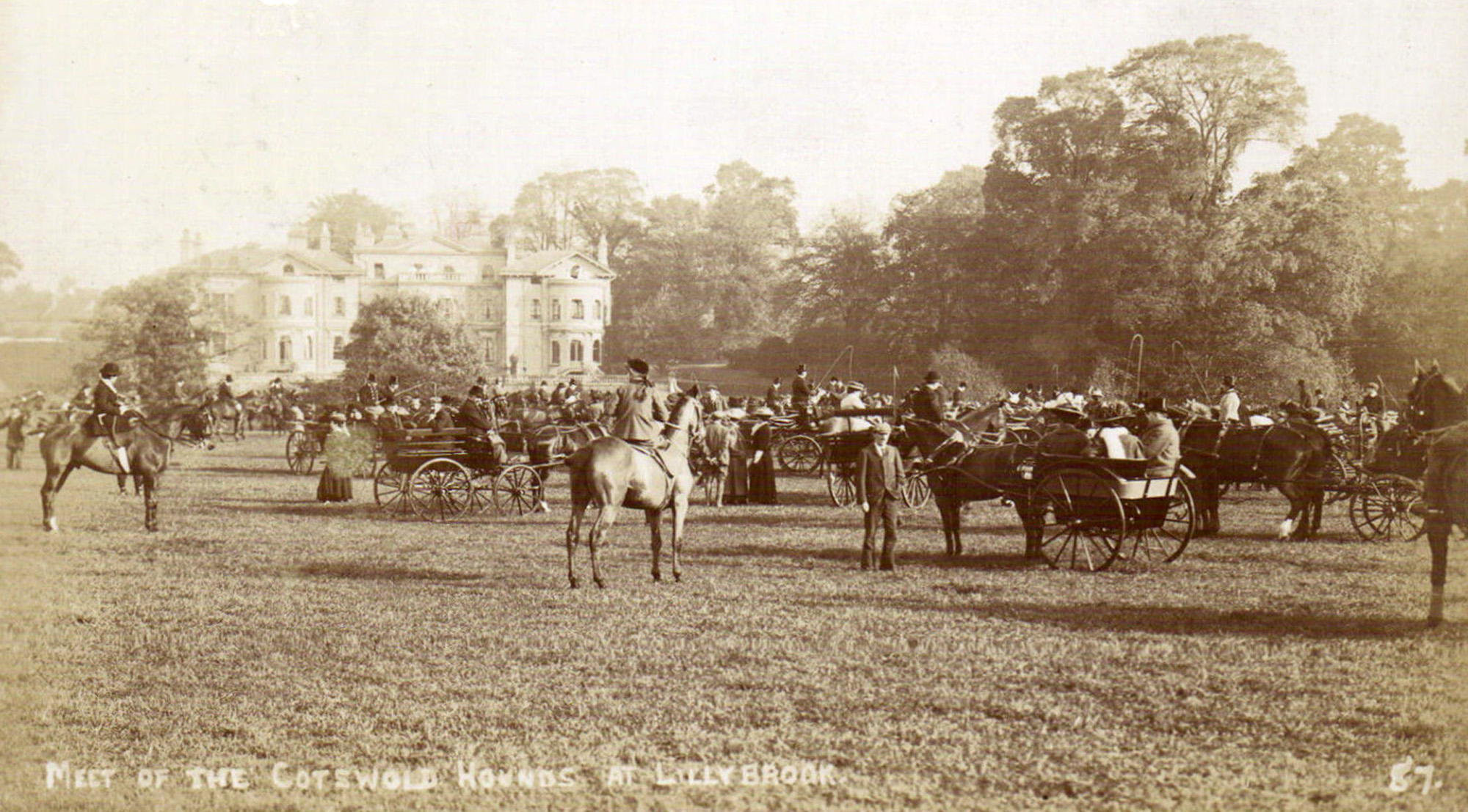 Lilleybrook, Charlton King (now Chltenham Park Hotel) on the first day of the hunt circa 1900.